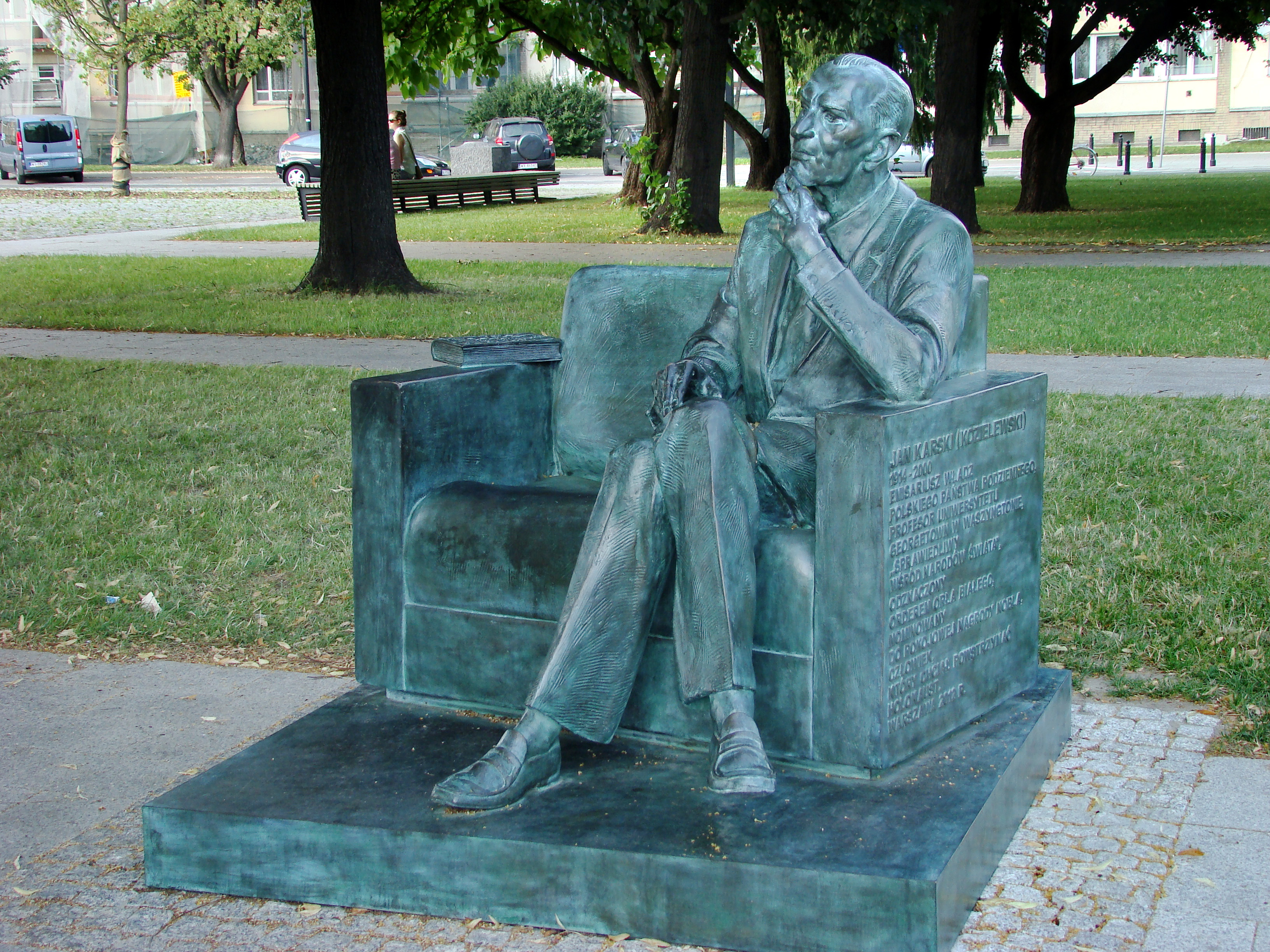 Jak Karski Monument, Warsaw